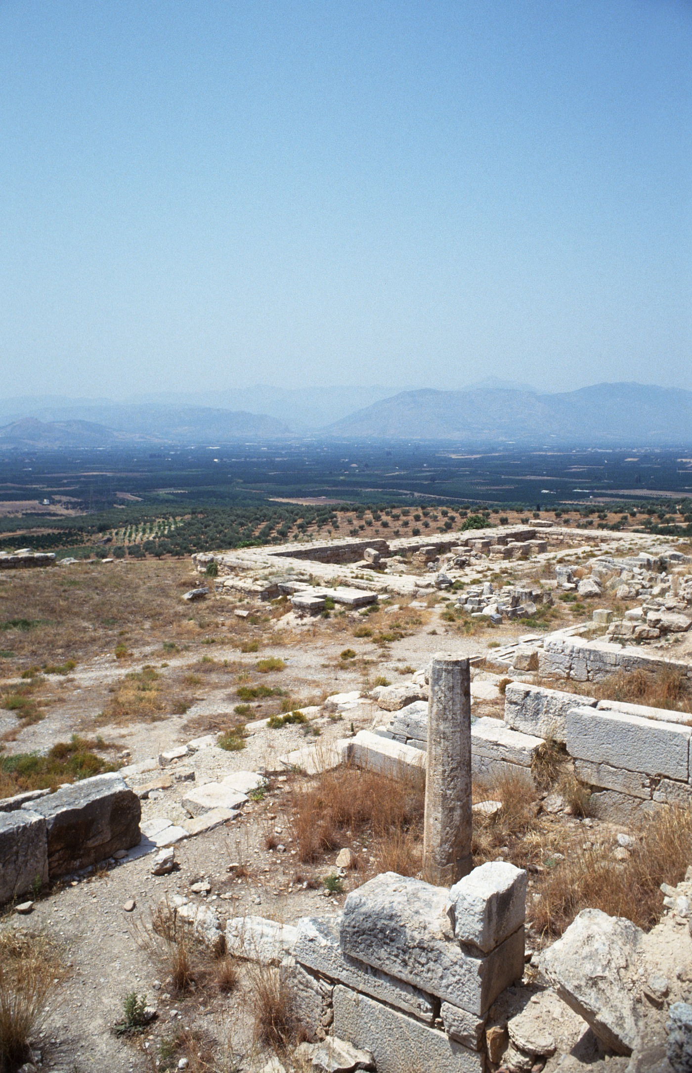 Heraion of Argos in 1993. (Scan from slide)